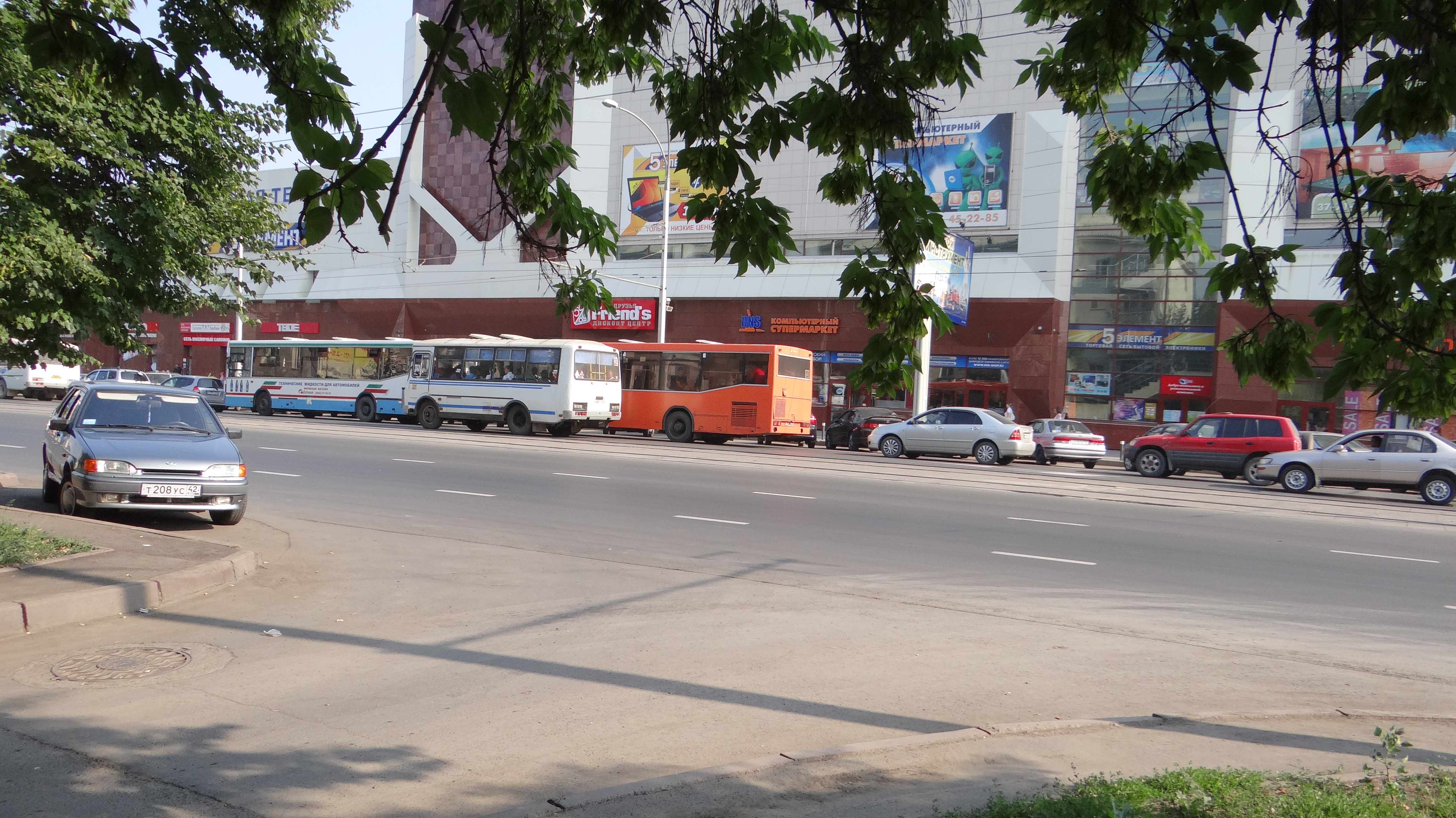 Tsentralnyy rayon, Kemerovo, Kemerovskaya oblast', Russia.